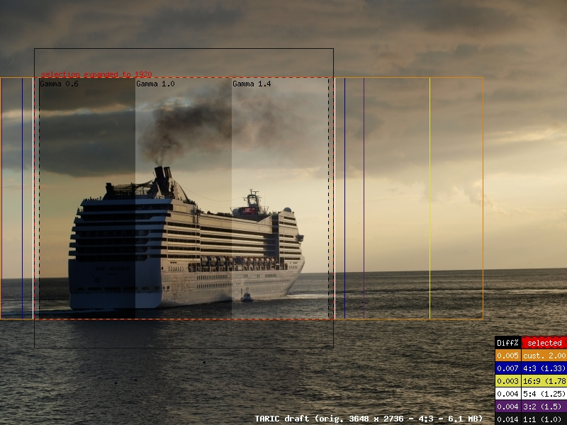 cropping: an image detail marked for cropping using different aspect ratios.